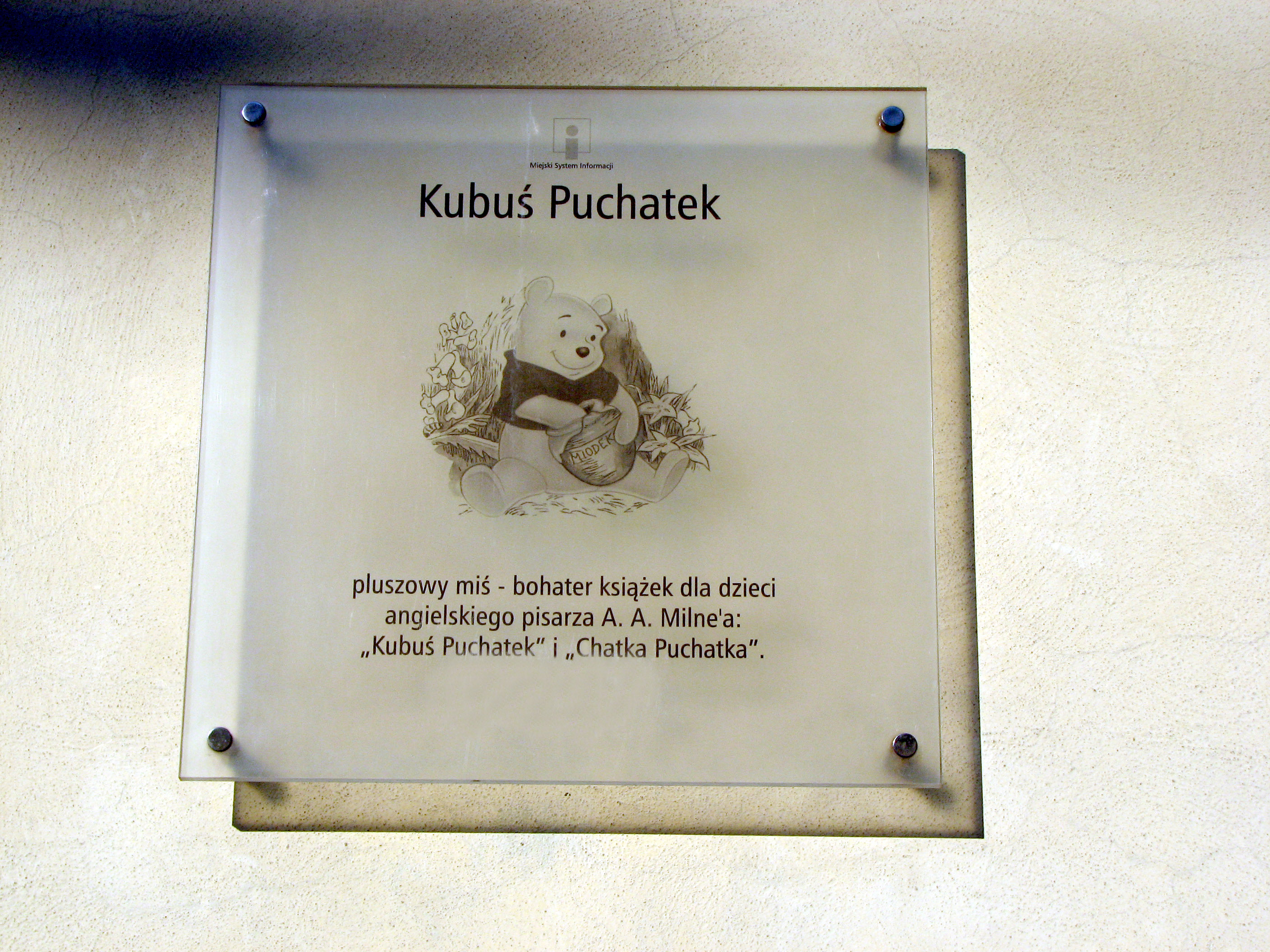 Winnie-the-Pooh Street, Warsaw